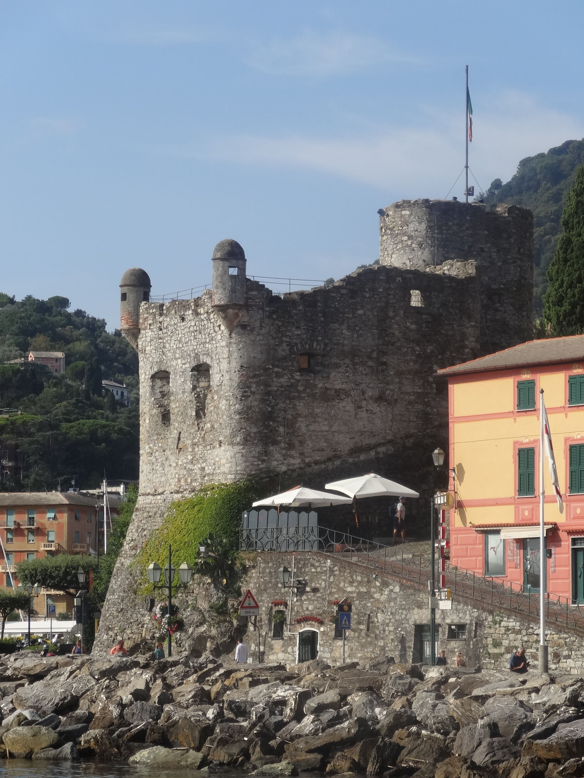 August 2016 in Santa Margherita Ligure. Castello Cinquecentesco